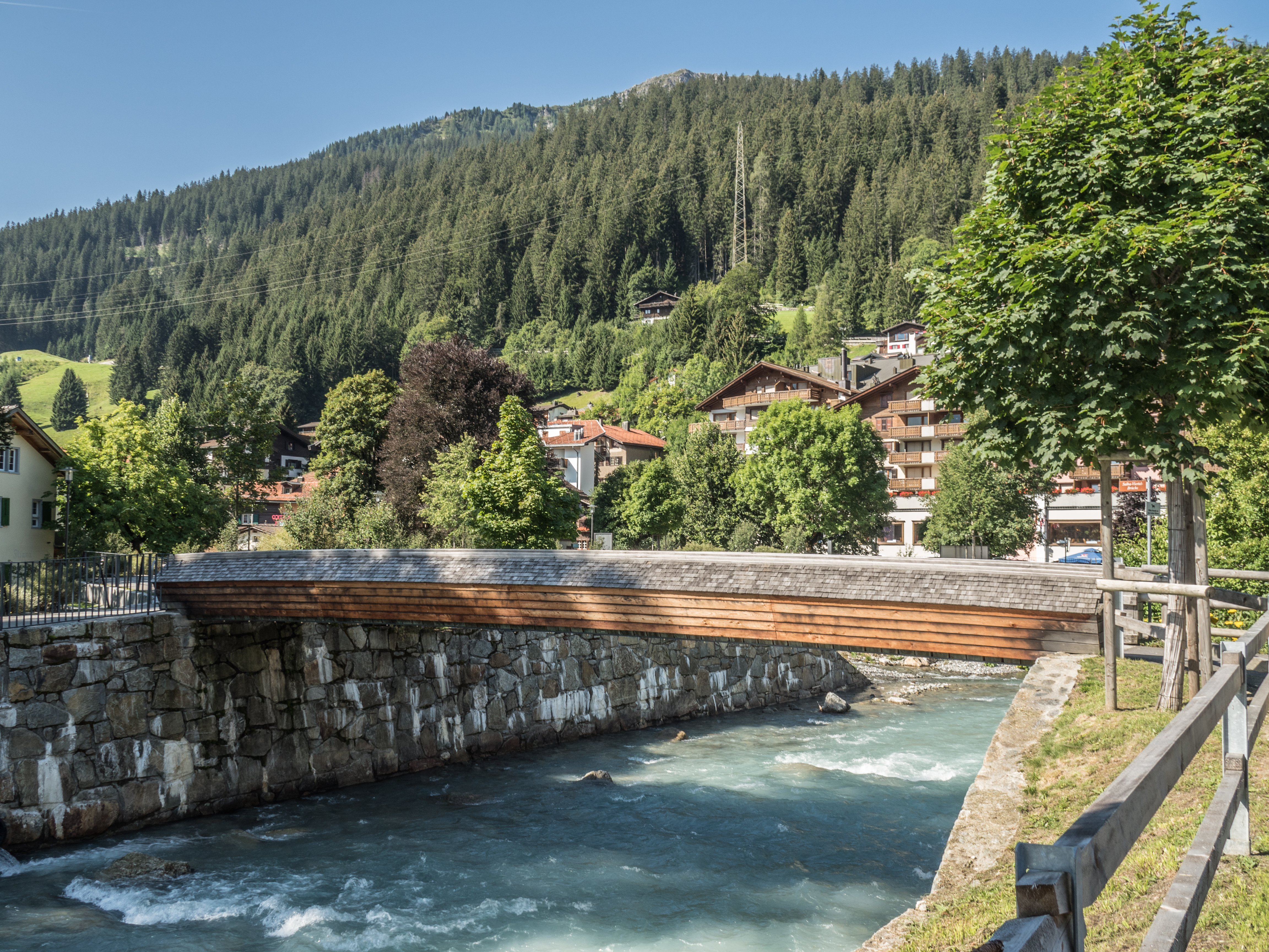 Salka-Viertel Bridge over the Landquart River, Klosters, Canton of Grisons, Switzerland